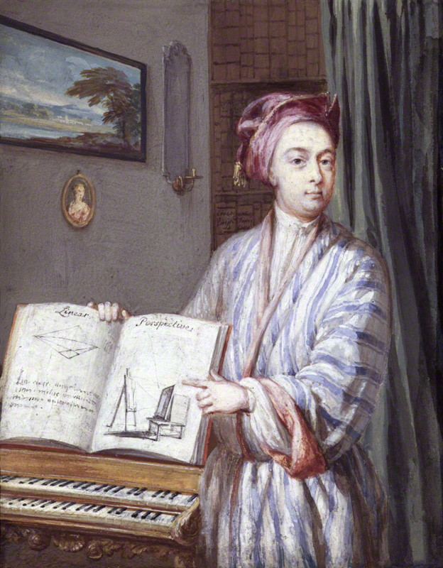 Small copy of a portrait of Brook Taylor, the English mathematician